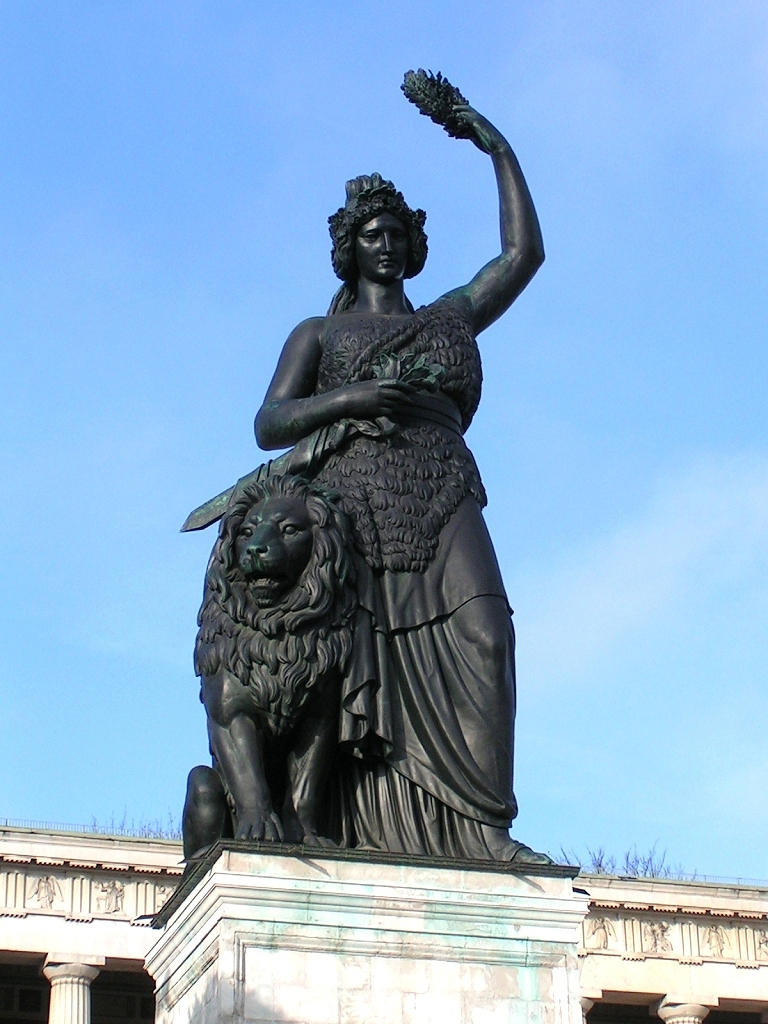 The famous "Bavaria" statue in the Theresienwiese, Munich, Germany.